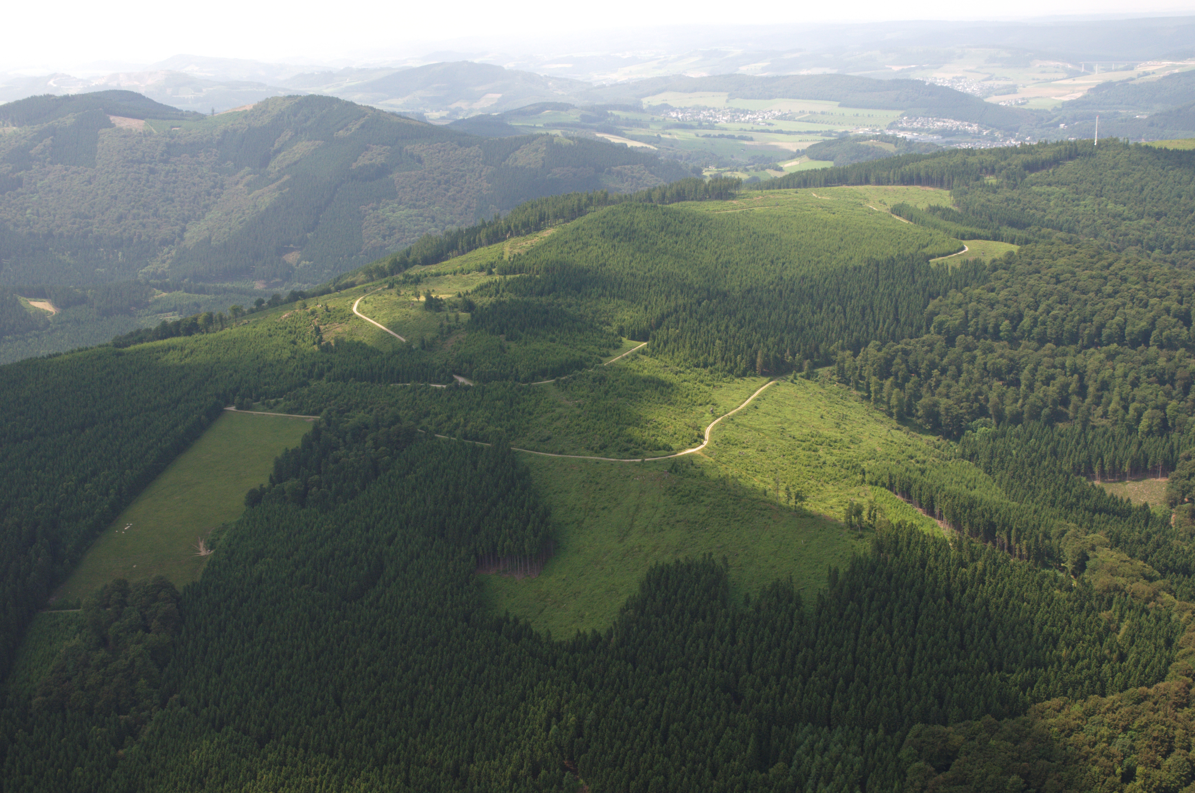 Fotoflug Sauerland-Ost, Gipfel des Heidkopfs und des Olsbergs mit WDR-Sender OLSBERG The making of this document was supported by the Community-Budget of Wikimedia Germany.